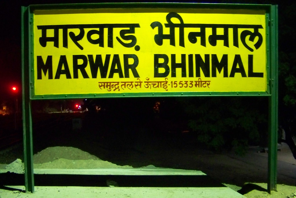 This is the image of Marwar Bhinmal Railway Station situated in Rajasthan state of India in Samdari Bhilari Railway Section.